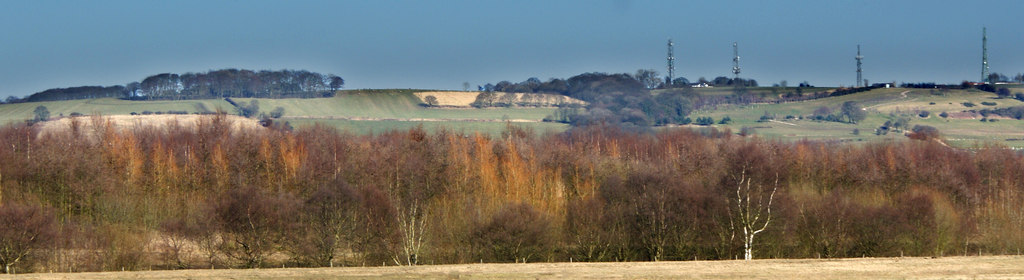 Looking across the Mersey Forest towards Billinge Hill Taken from the path near Pennsylvania